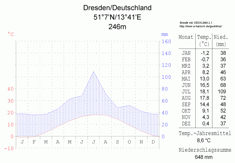 climate chart in the format by Walther and Lieth, metric, °Celsisus and millimeters, made with Geoklima 2.1